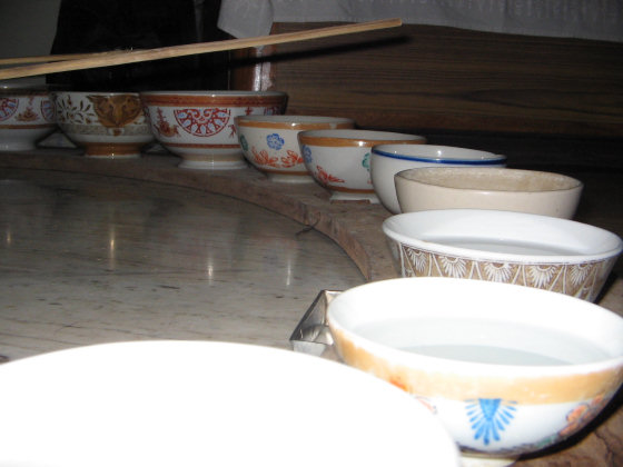 Picture of Jal Tarang bowls owned by Dr. Ragini Trivedi. Picture courtesy